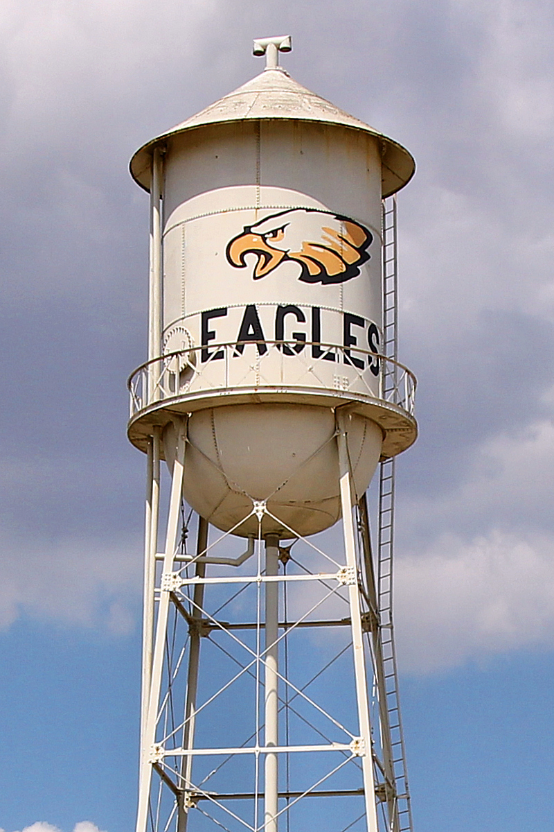 The water tower in Bruceville-Eddy, Texas, United States emblazoned with an image of the school mascot.